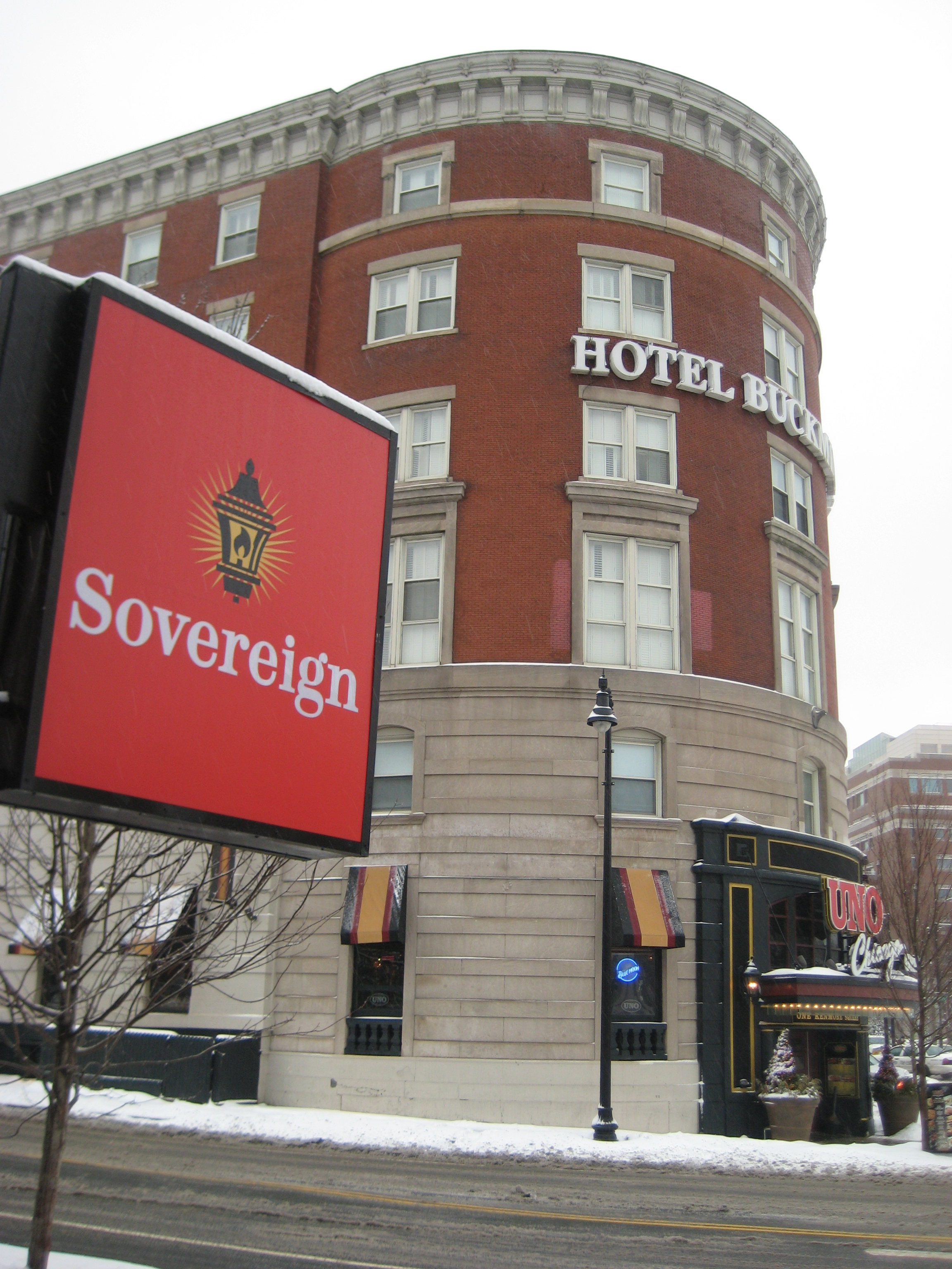 Boston Hotel Buckminster at intersection of Beacon Street and Brookline Avenue in Kenmore Square (Boston, Massachusetts). Sovereign Bank in foreground, Pizzeria Uno restaurant also visible. January 2009 photo by John Stephen Dwyer.